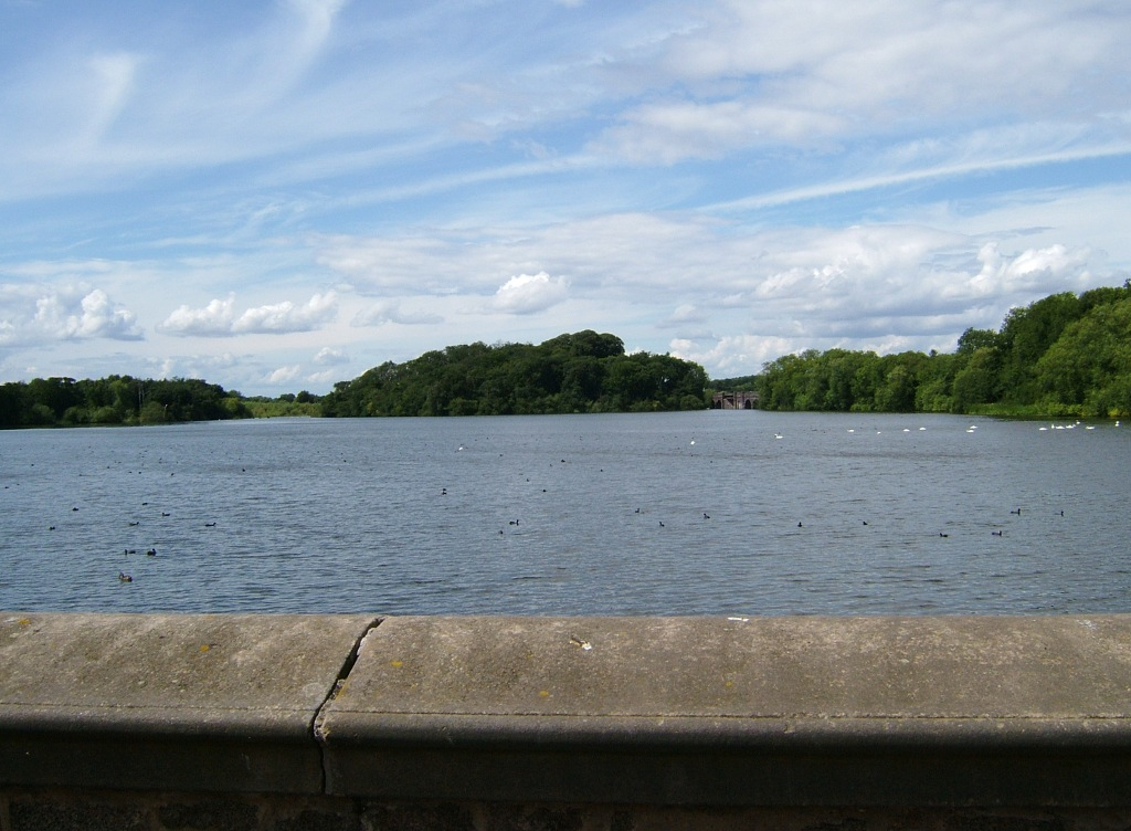 Swithland Reservoir, Leicestershire, viewed from the causeway at Swithland. the Great Central Railway viaduct is visible on the right, with Brazil Island in the centre.